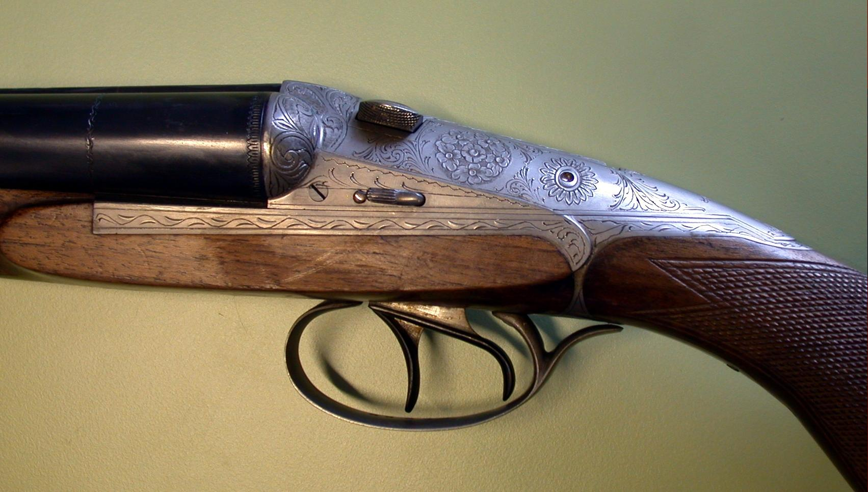 Darne double barreled shotgun